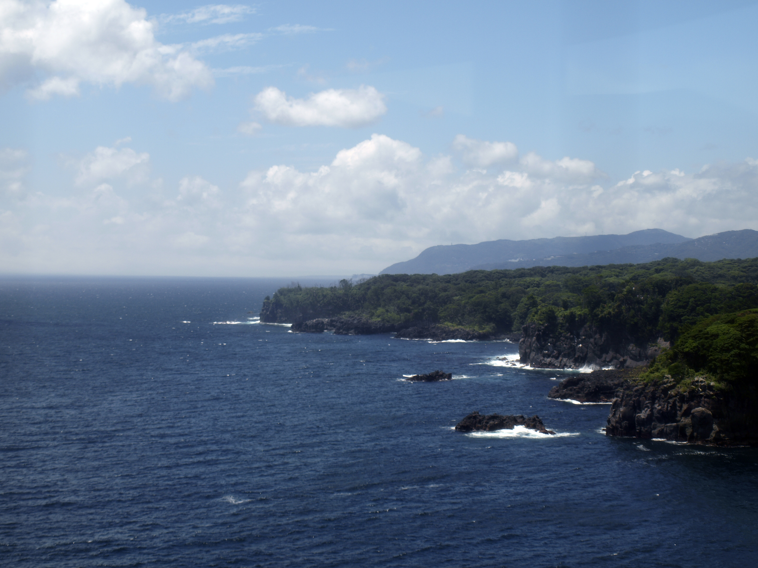 Jōgasaki Coast in Ito, Shizuoka Prefecture, Japan. Taken from Kadowakisaki Lighthouse. Looking southwest. This coast was made by Mount Omuro eruption in approximately 4,000 years ago. Olympus E-420 + Zuiko Digital ED 14-42mm F3.5-5.6